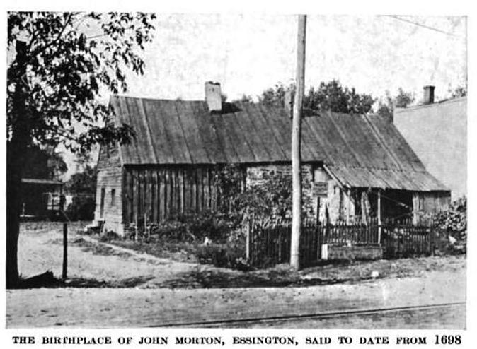 Photograph of the birthplace of John Morton, signer of the Declaration of Independence, in Essington, PA. circa 1919